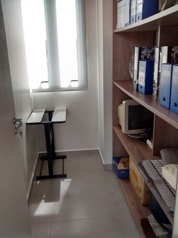 Work in the space